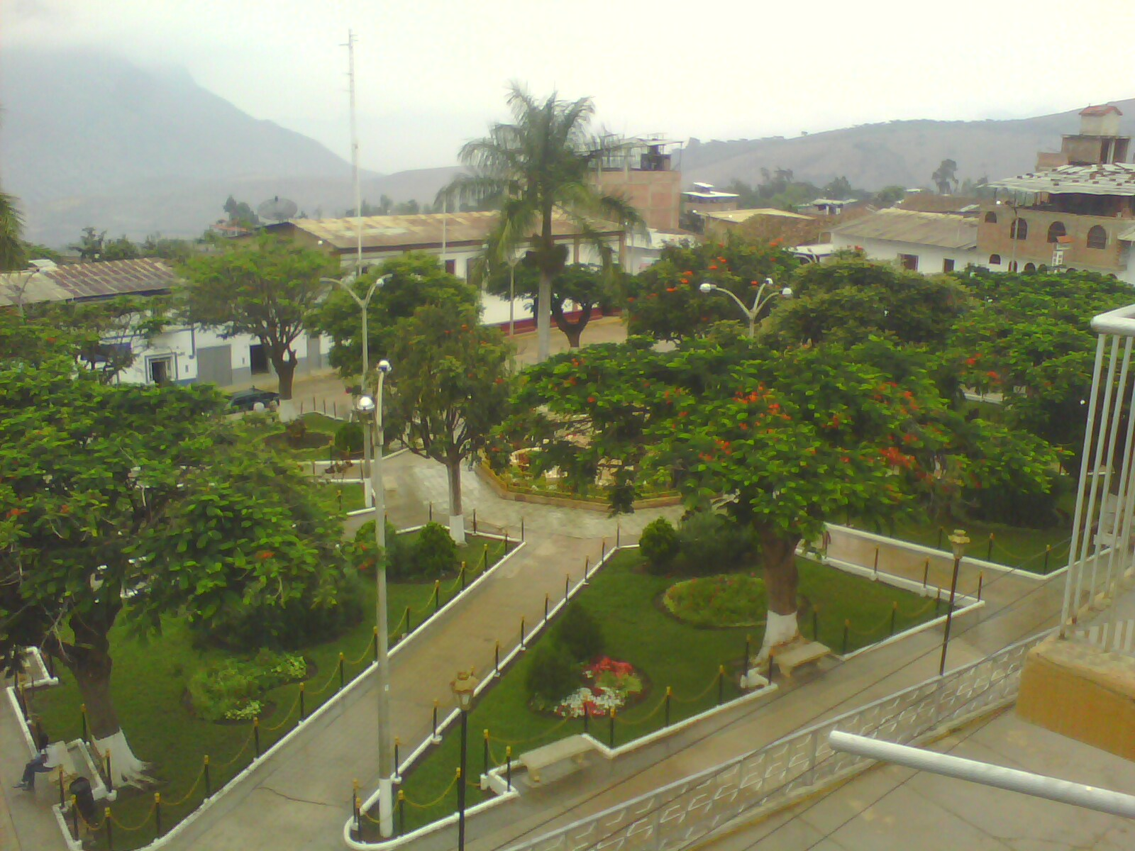 Vista panorámica del clima exótico de Casca.